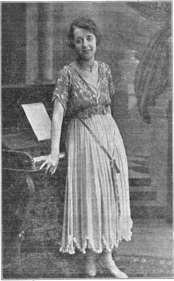 Photo of Margie Morris, English actress in Holland.